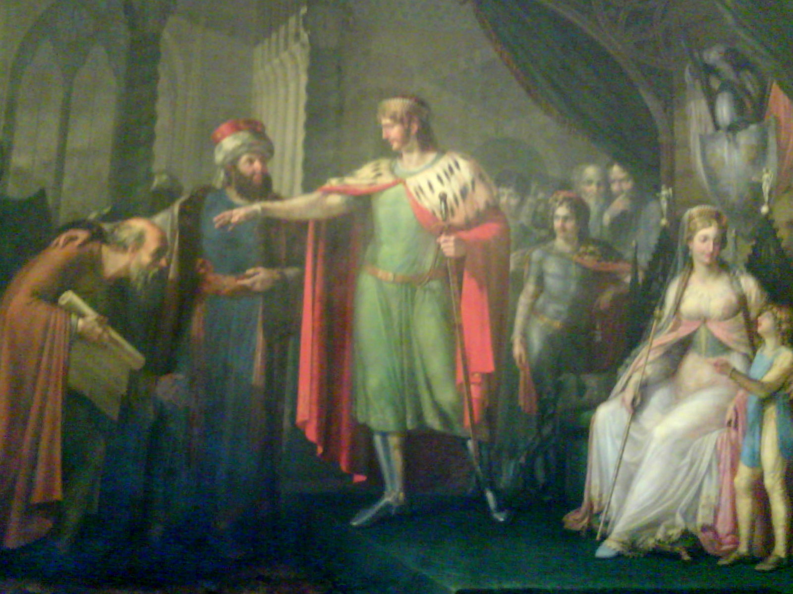 Robert Guiscard-Viscardi and Constantine the African. Constantine goes ashore in Salerno and he is recognized by the brother of the king of Babylonia. In the picture the brother of the king of Babylonia introduces Constantine to the court of Robert Guiscard.